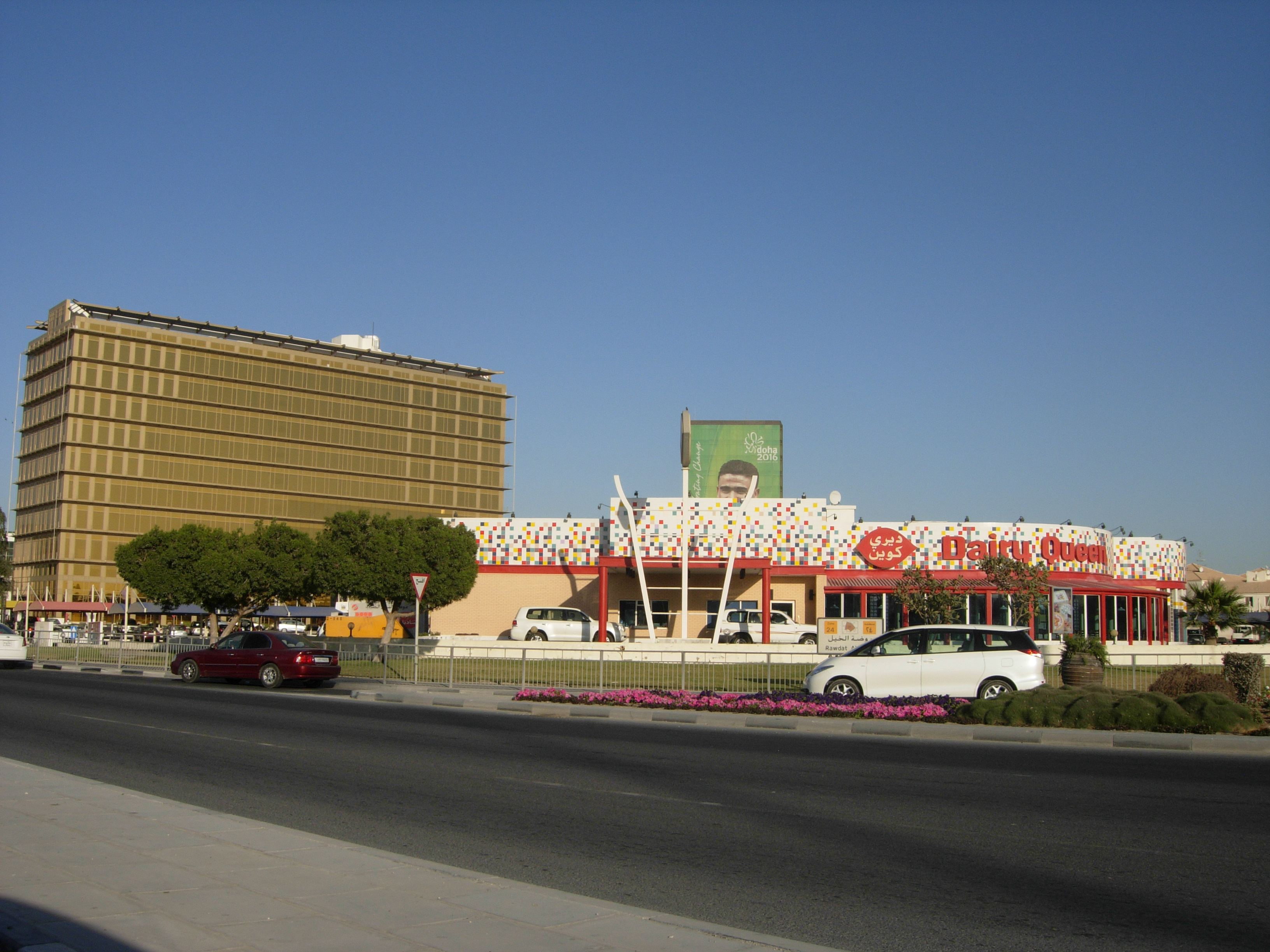 Dairy Queen on Salwa Road in Rawdat Al Khail district of Doha, Qatar. Next to Ahli Bank.